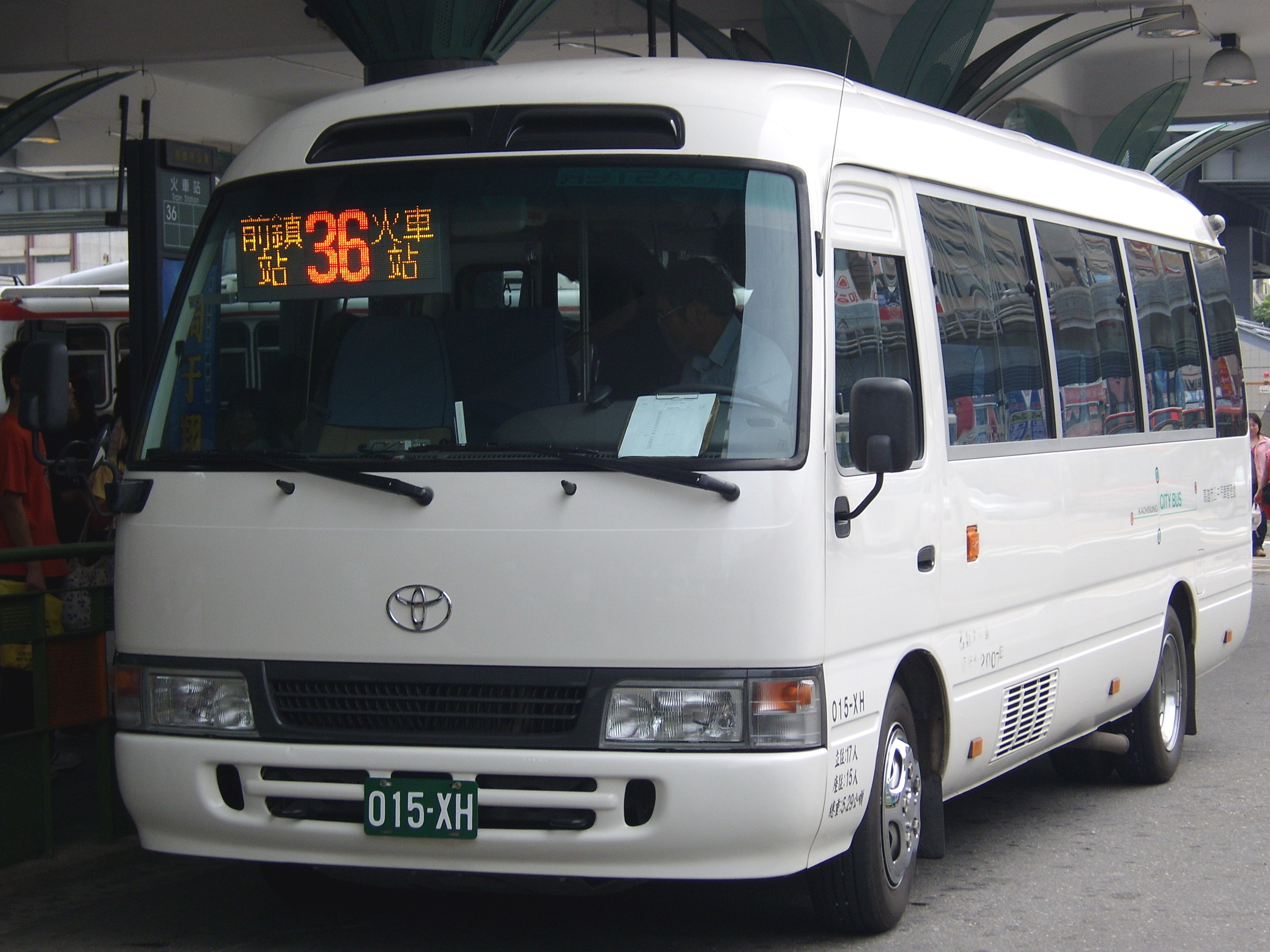 A Toyota coaster by Kaohsiung City Bus Department.